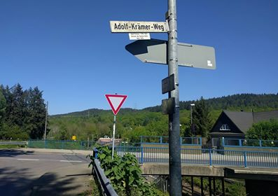 Adolf-Krämer-Weg in Quint